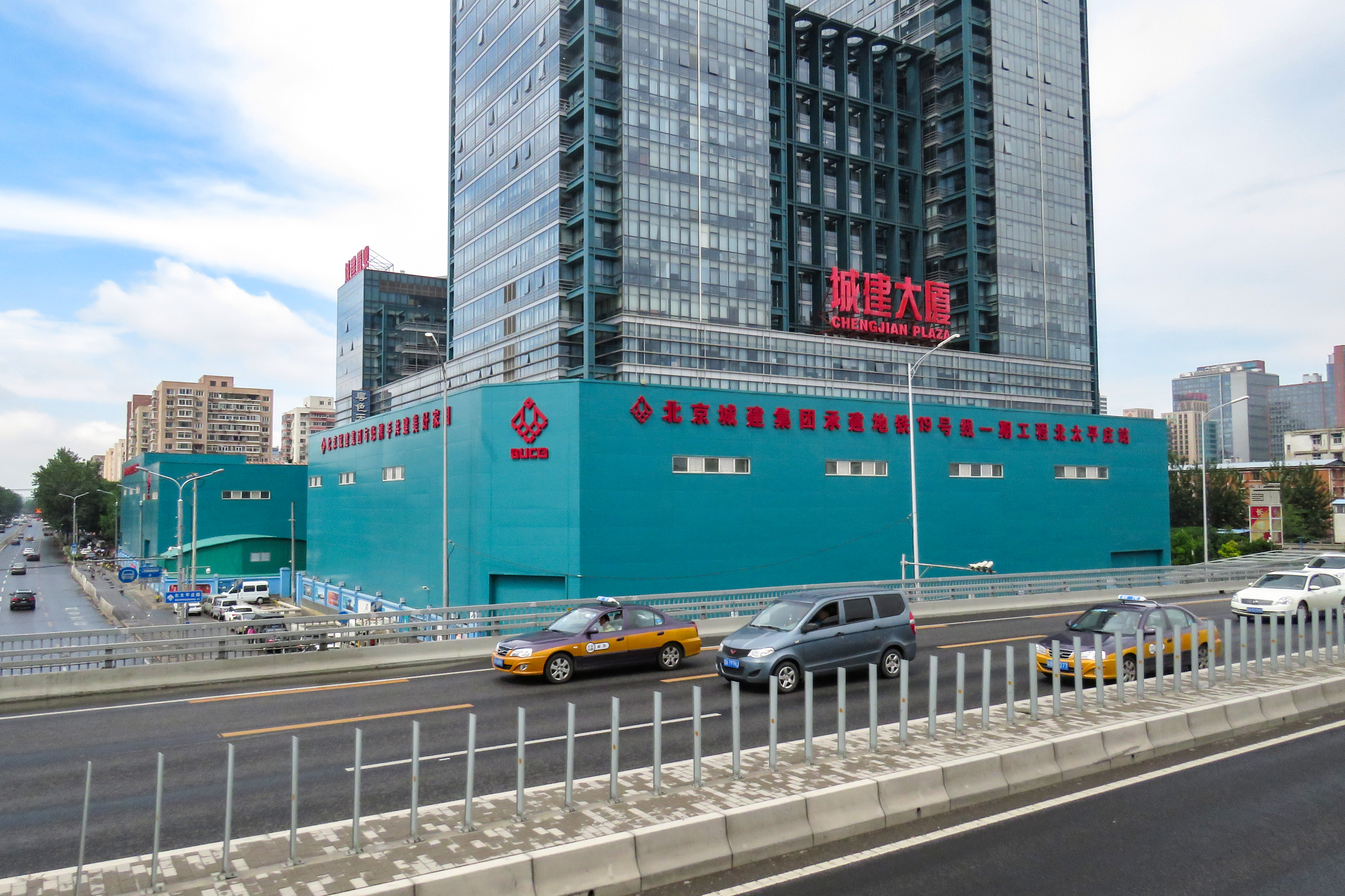 This station will also serve Beijing Normal University...